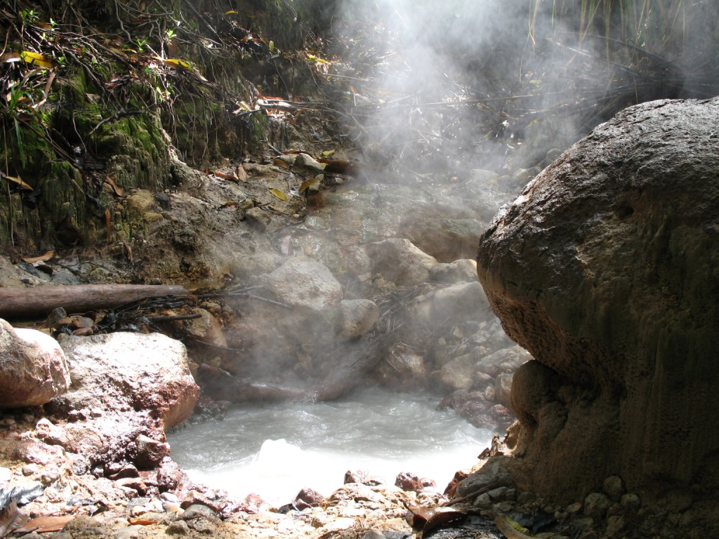 Dominica, natural island in the caribbean